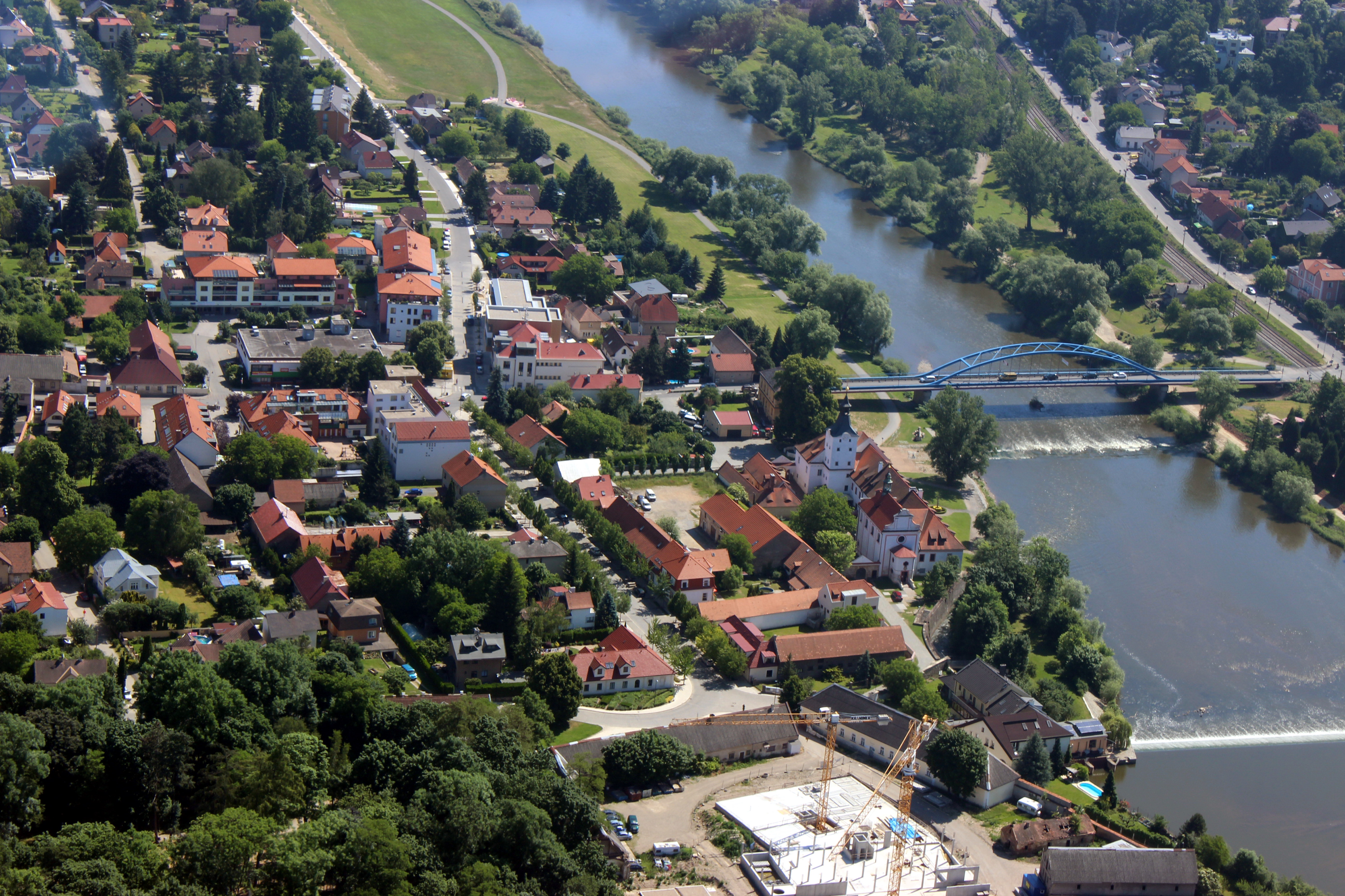 View from the air on Dobřichovice, Central Bohemia